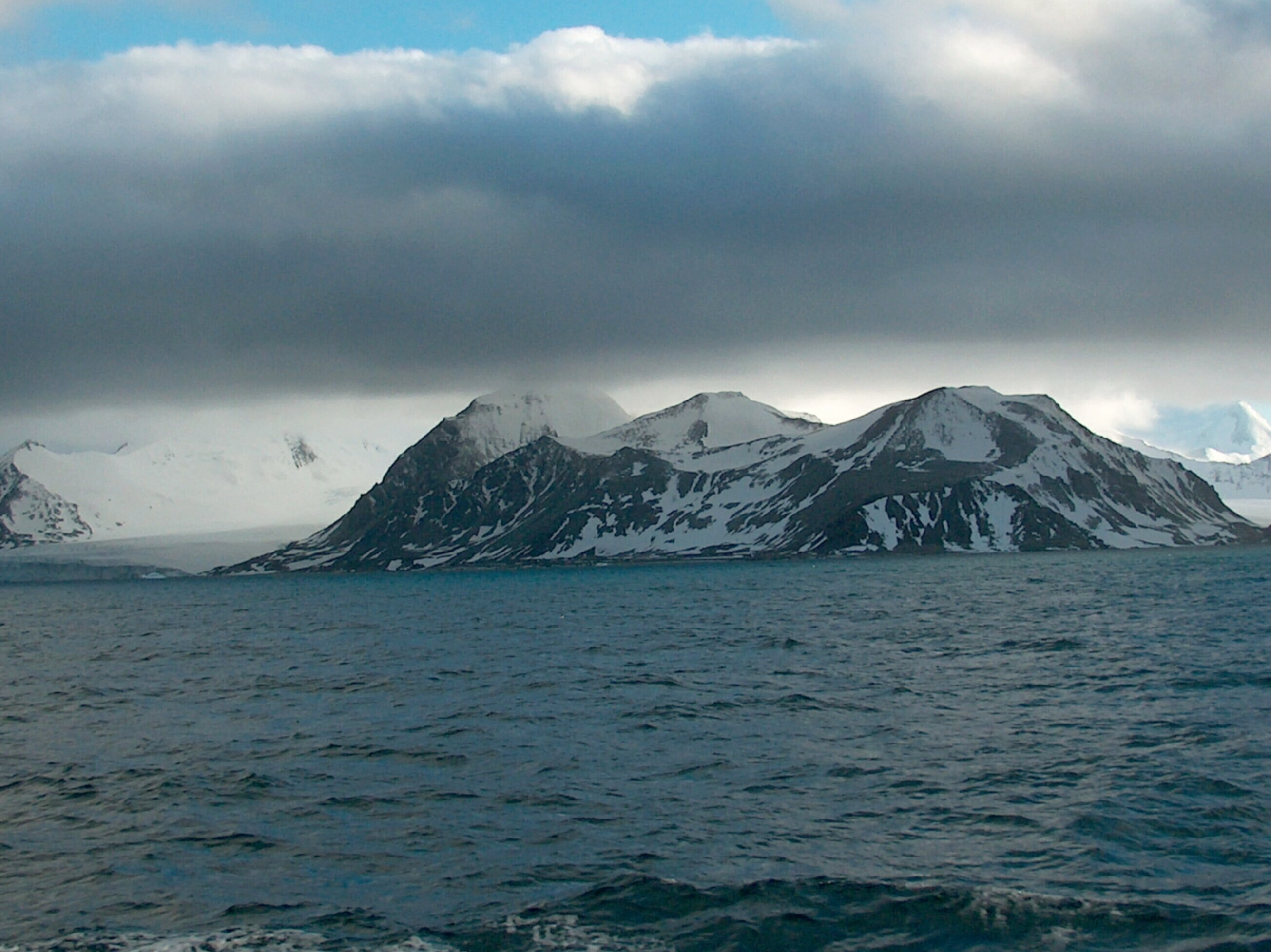 Arkutino Beach on Livingstone Island, Antarctica. source: Lyubomir Ivanov